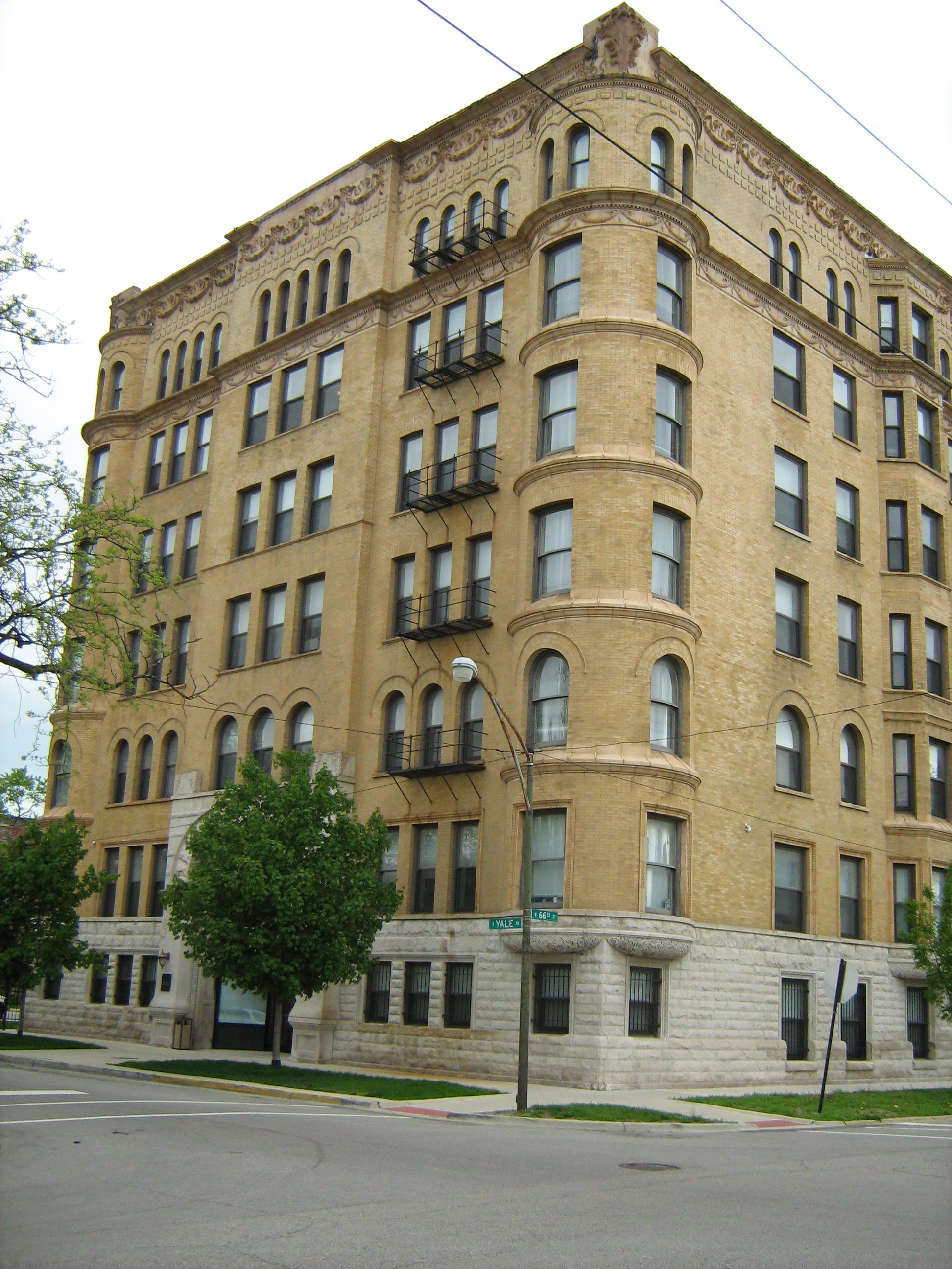 6565 S Yale Ave Chicago, IL 60621